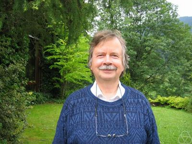 Jochen Brüning, Oberwolfach 2005